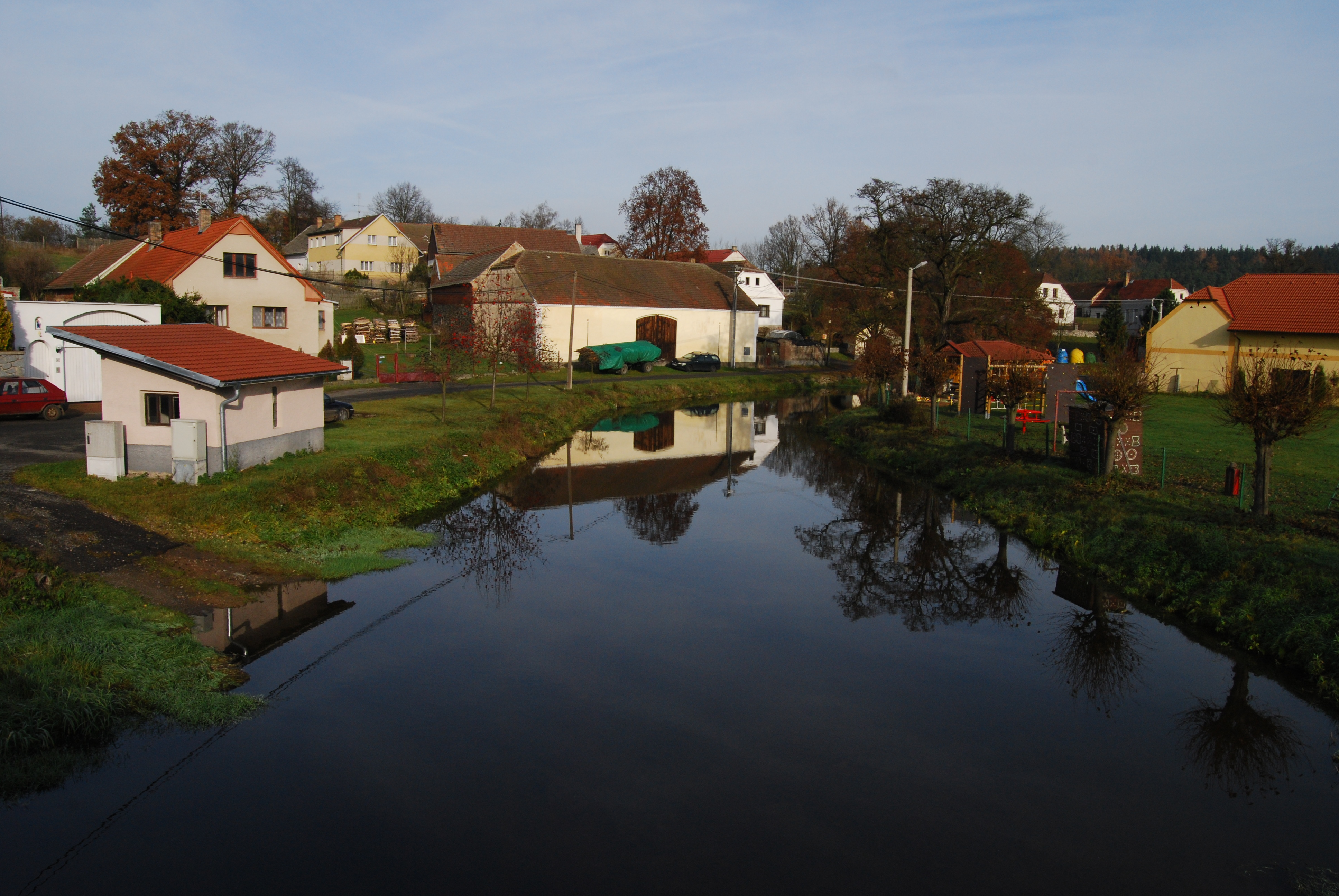 Počaply village in Příbram District, Czech Republic. Mlýnksý creek